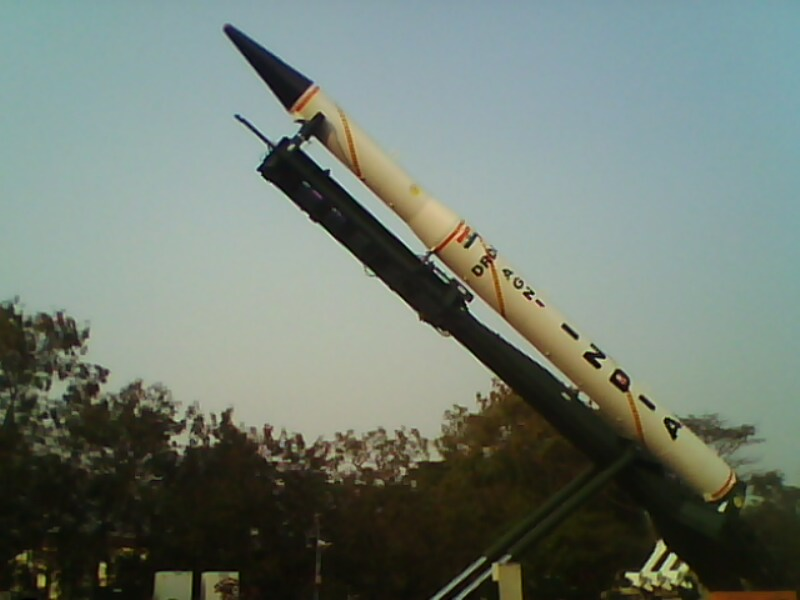 Indian Army Exhibiting the armour of Mother India at DRDO (DEFENCE RESEARCH & DEVELOPMENT ORGANISATION)